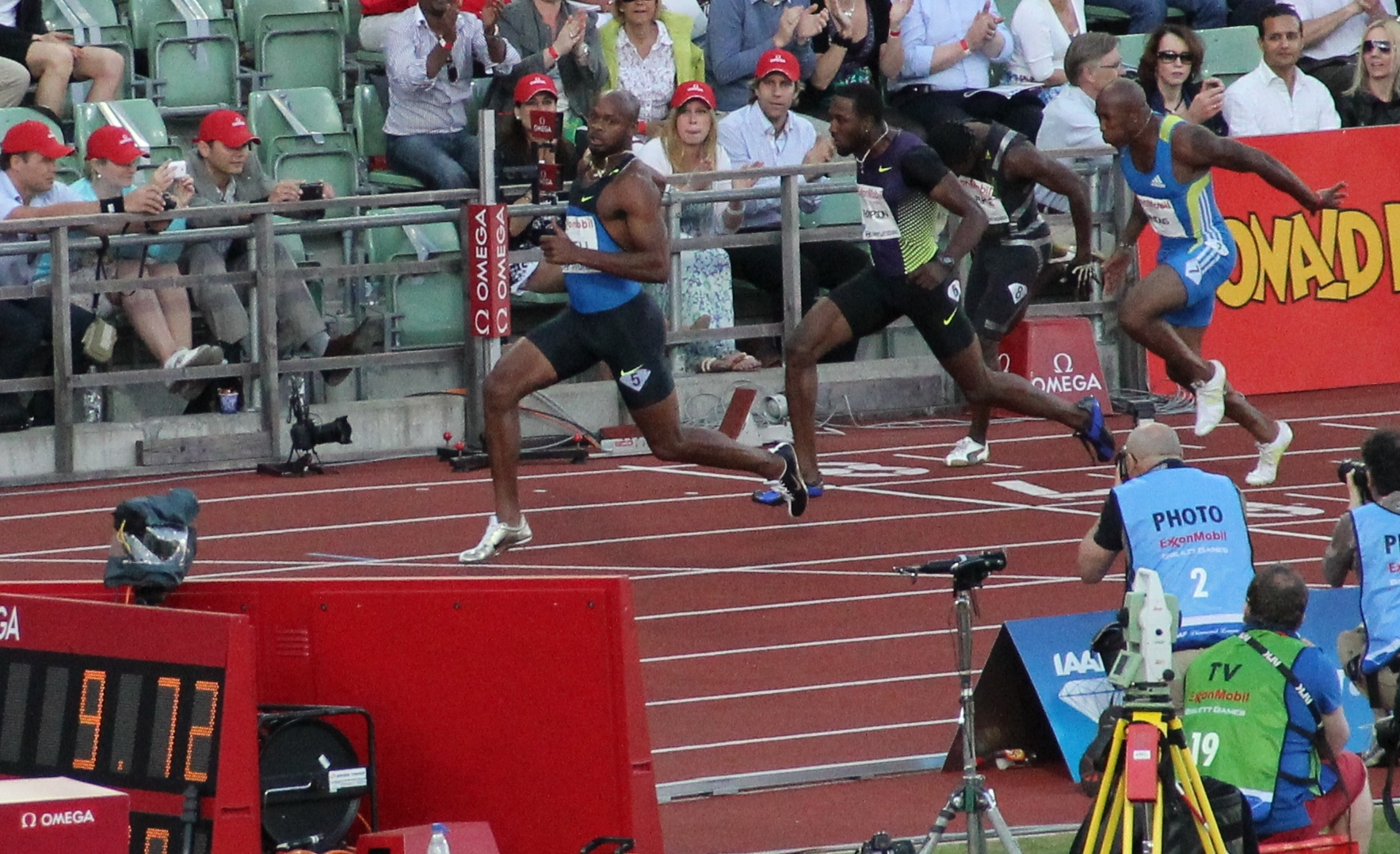 Asafa Powell with a 9.72 win and track record at the Bislett Games 2010. Richard Thompson (lane 6) 2nd at 9.90. Trell Kimmons (lane 7) 5th at 10.08. Lerone Clarke (lane 8) 6th at 10.11